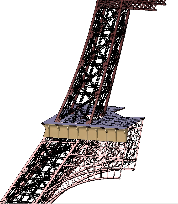 This is the representation of the North Leg of the Eiffel Tower created with CATIA V5R17.